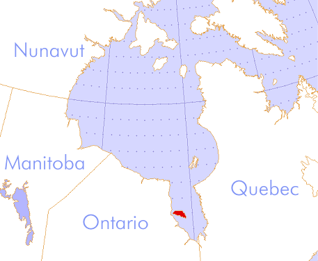 Location of Akimiski Island, Canada